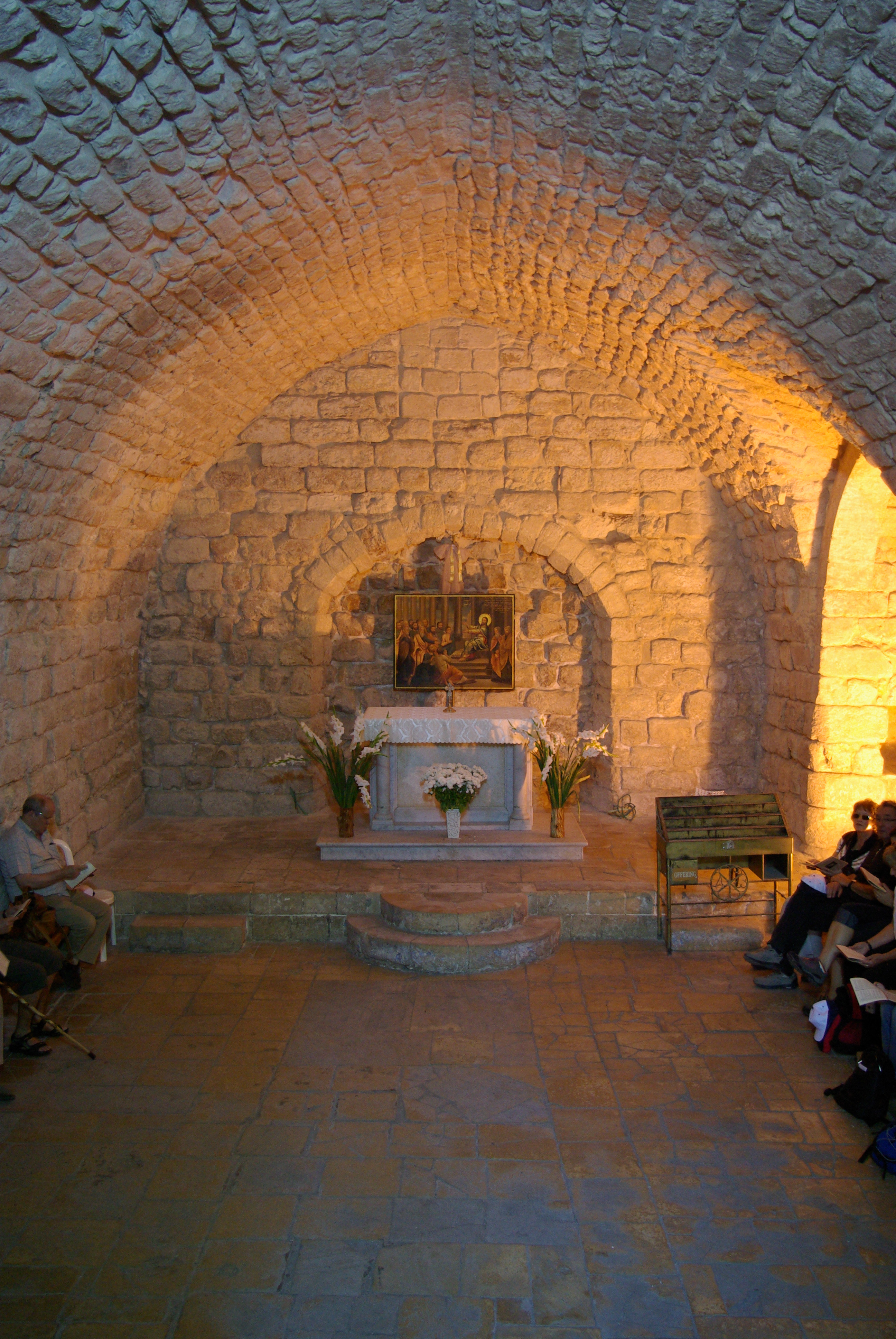 Nazareth, Synagogue Church, this is the ancient synagoge